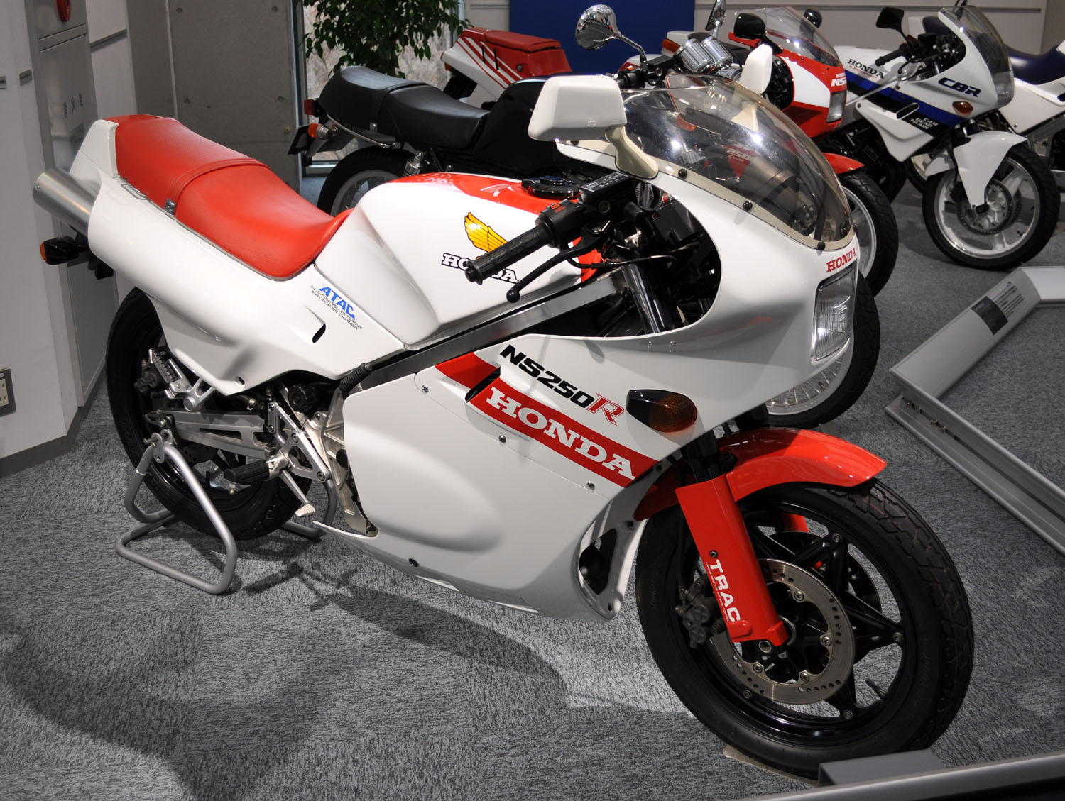 Honda NS250R (1984)